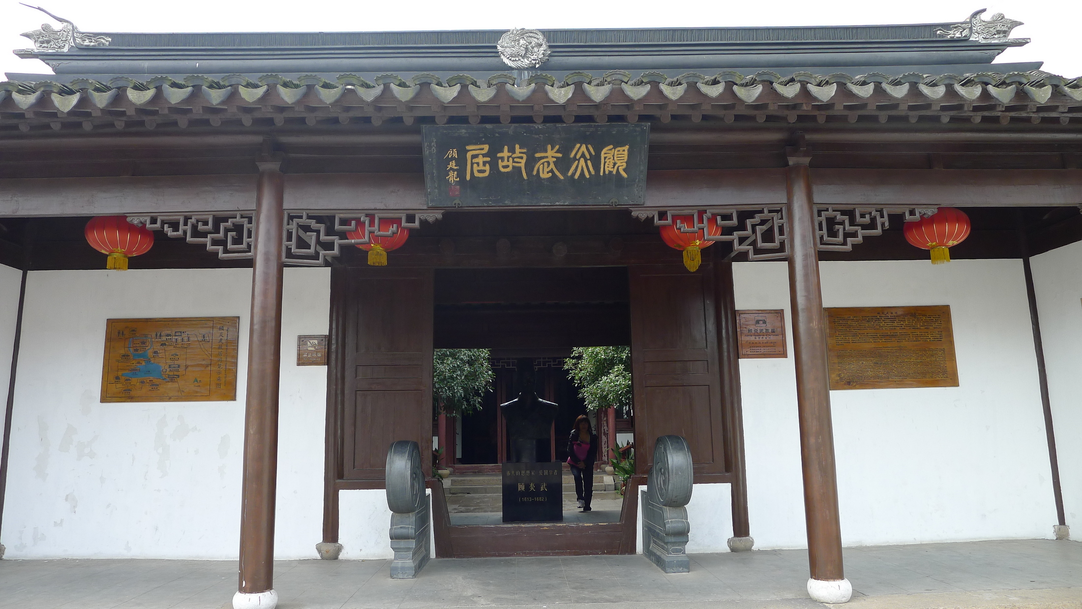 Former residence of Gu Yanwu in Qiandeng town